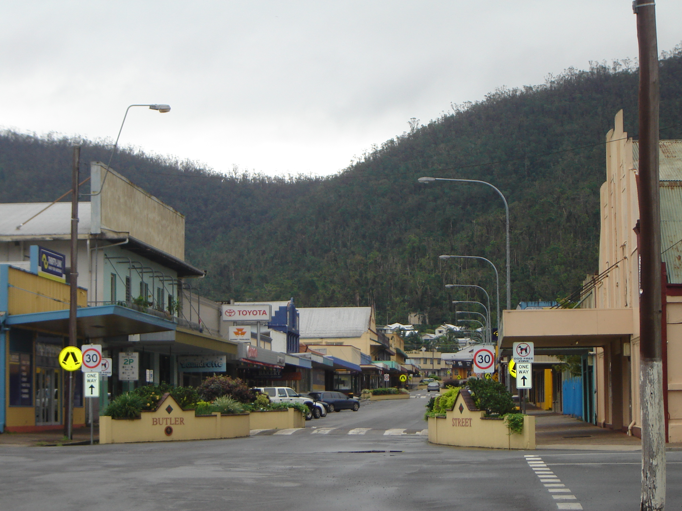 A photograph of Tully's main street. Photo taken by Frances76.